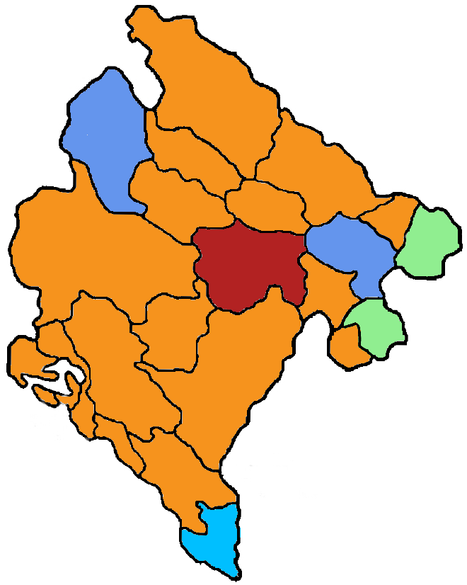 Results of Montenegro, municipal elections, 2012-14 by municipality.